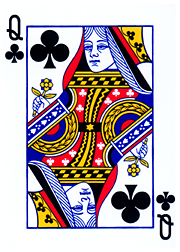 A Playing card: queen of clubs , from poker deck, in small png format.